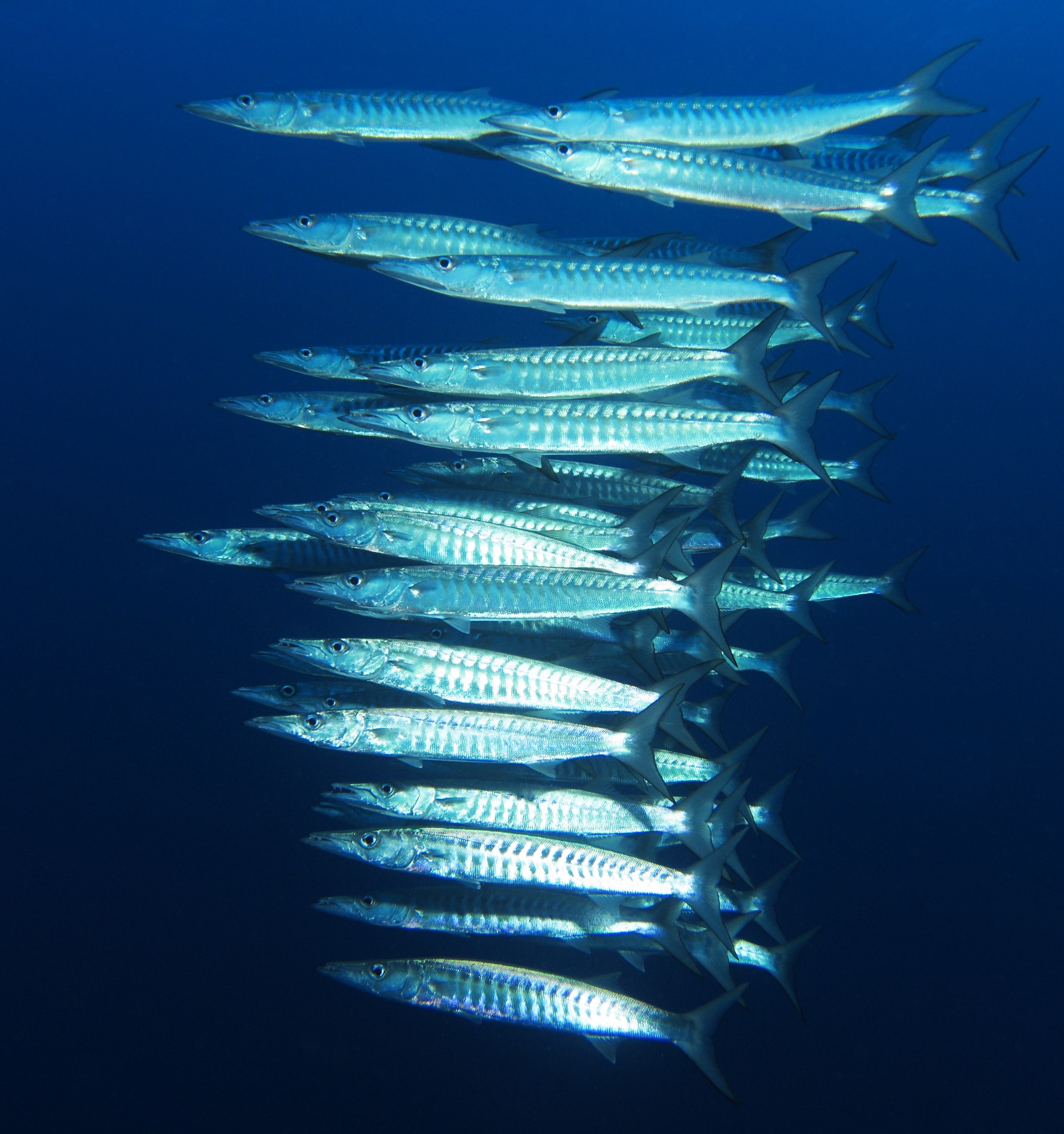 School of blackfin barracuda (sphyraena qenie) at Elphinstone Reef in the Red Sea